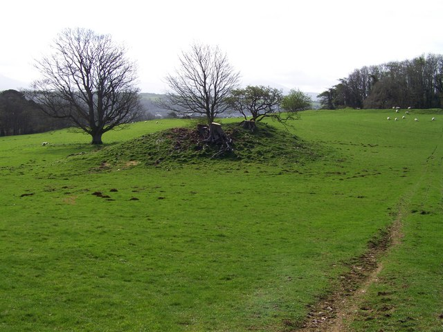 Bryn yr Hen Bobl Burial Chamber. This is the only Chamber on Anglesey that has its original Lime Stone Mound now covered by grass.It is located on a private part of the Plas Newydd Estate.To visit it you must get written permission from Lord Caernarfons estate managers in advance as it is strictly private.